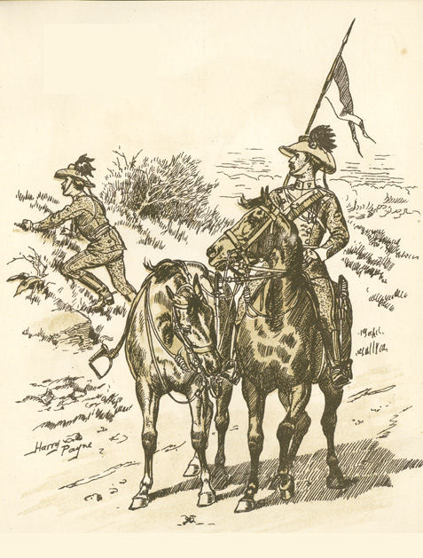 Drawing of New South Wales Lancers bby Harry Payne